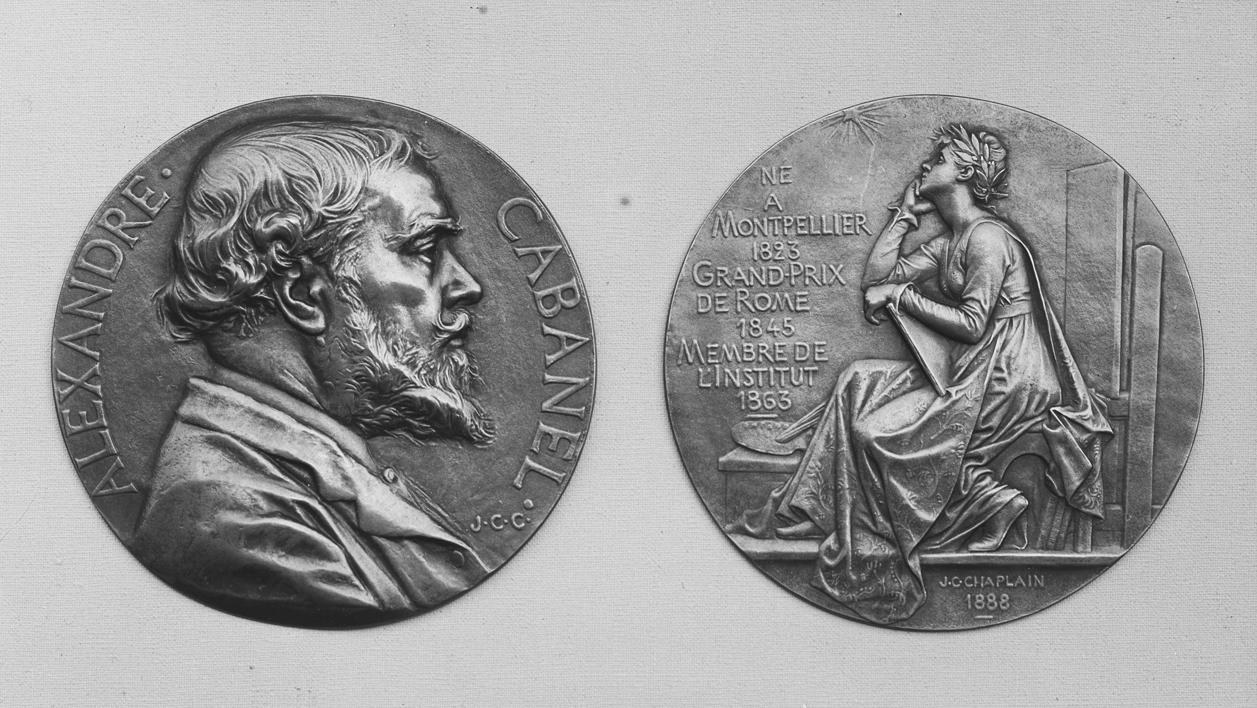 French; Medallion; Medals and Plaquettes